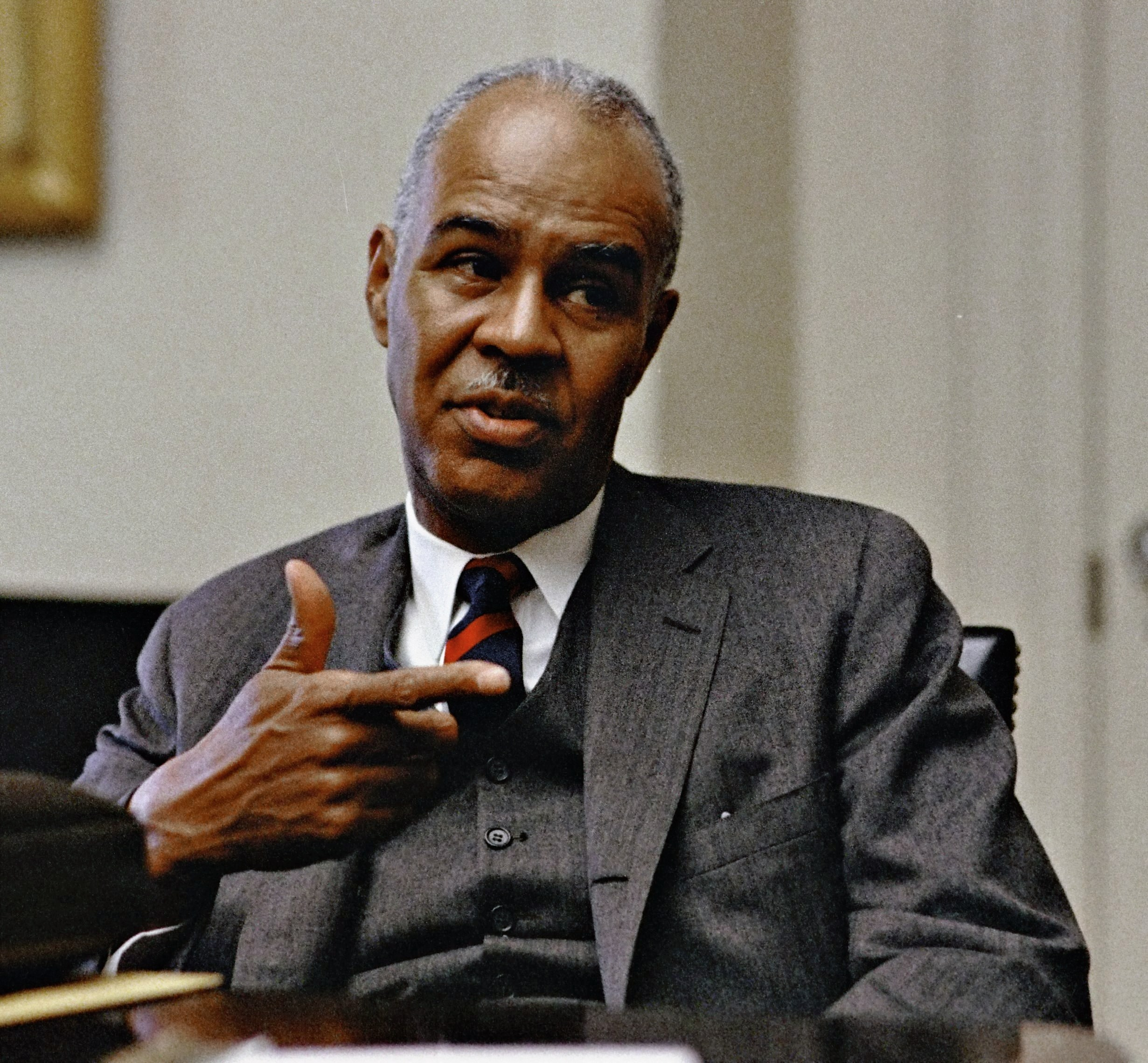 Roy Wilkins — Director of the NAACP, at the White House, 30 April, 1968. An African American Civil Rights leader in the United States.